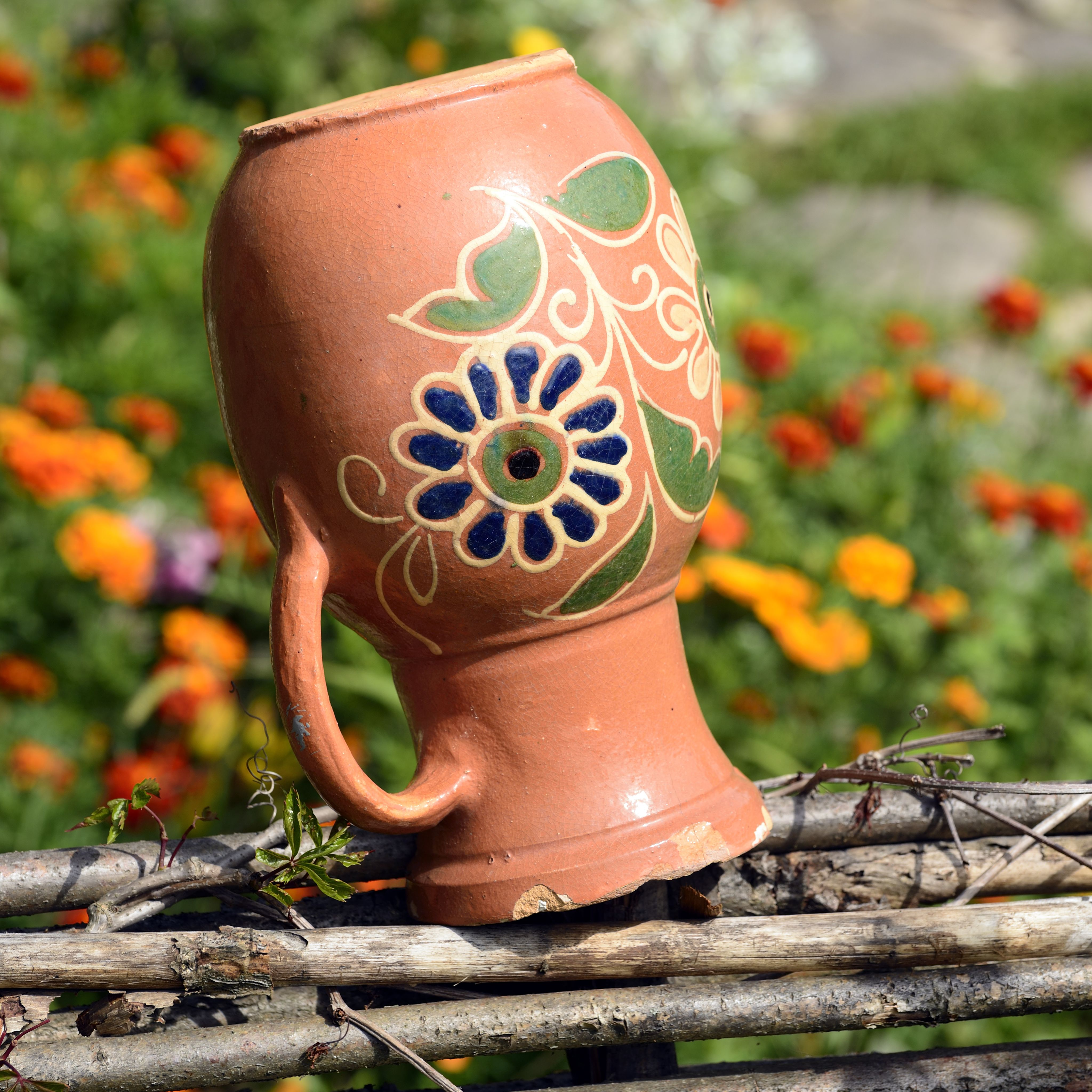 Ukrainian pitcher. Wikiexpedition to Fest "Borschyk in clay pot". Poltava region